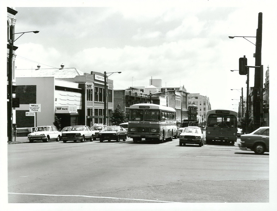 Auckland City - Streets Publicity Caption: Hobson Street, Auckland City Photographer: S. Raynes December 1982, Auckland City Archives New Zealand Reference: AAQT 6539 W3537 25 / B21604 For further enquiries please Material from Archives New Zealand Te Rua Mahara o te Kāwanatanga